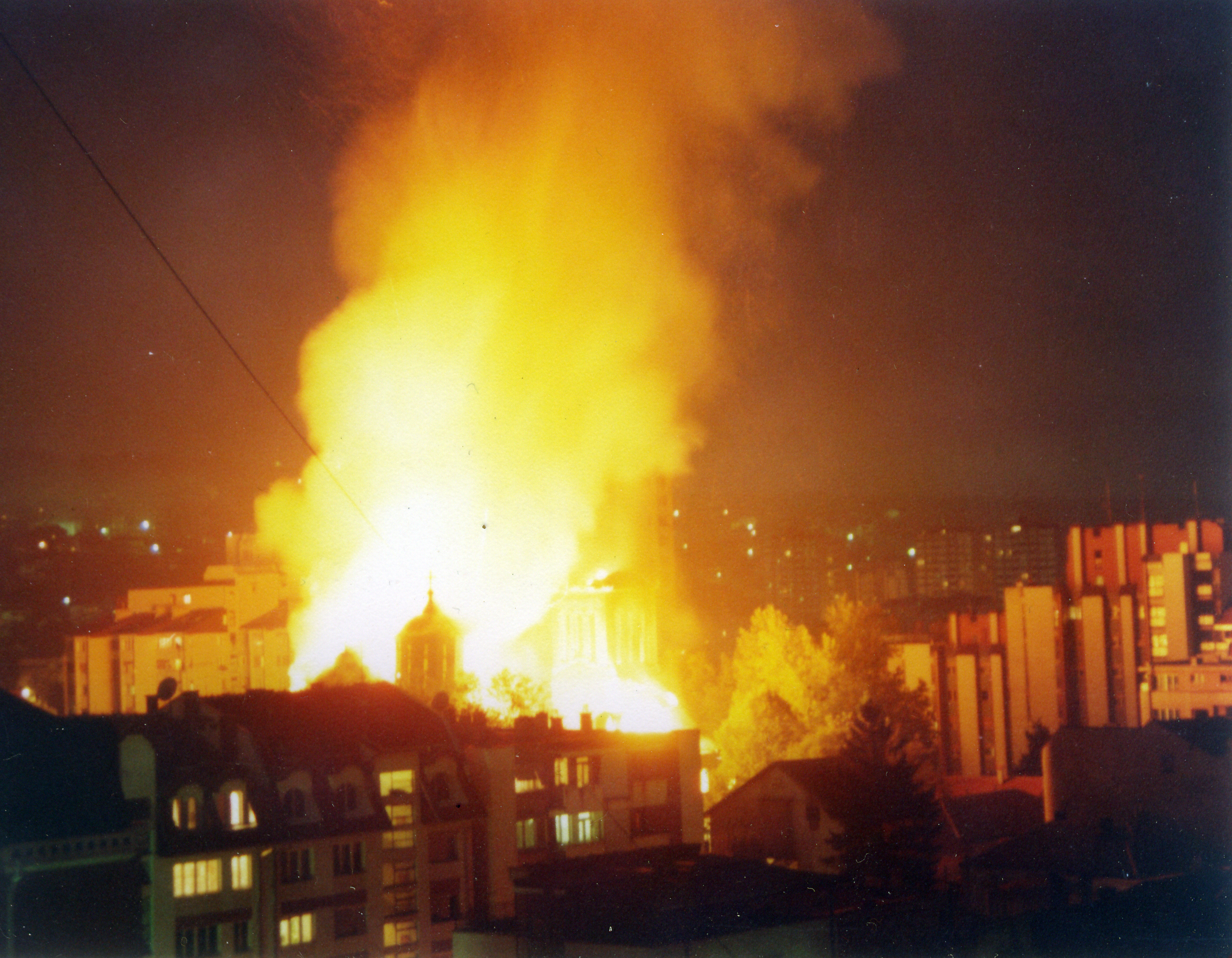 A fire in which on October 12, 2001, the Holy Trinity Cathedral in Niš (Serbia) was burnt to the ground